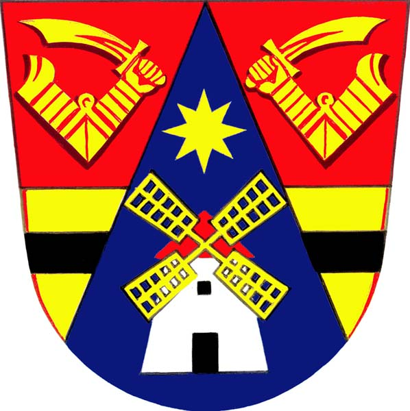 Municipal coat of arms of Kuželov village, Hodonín District, Czech Republic.